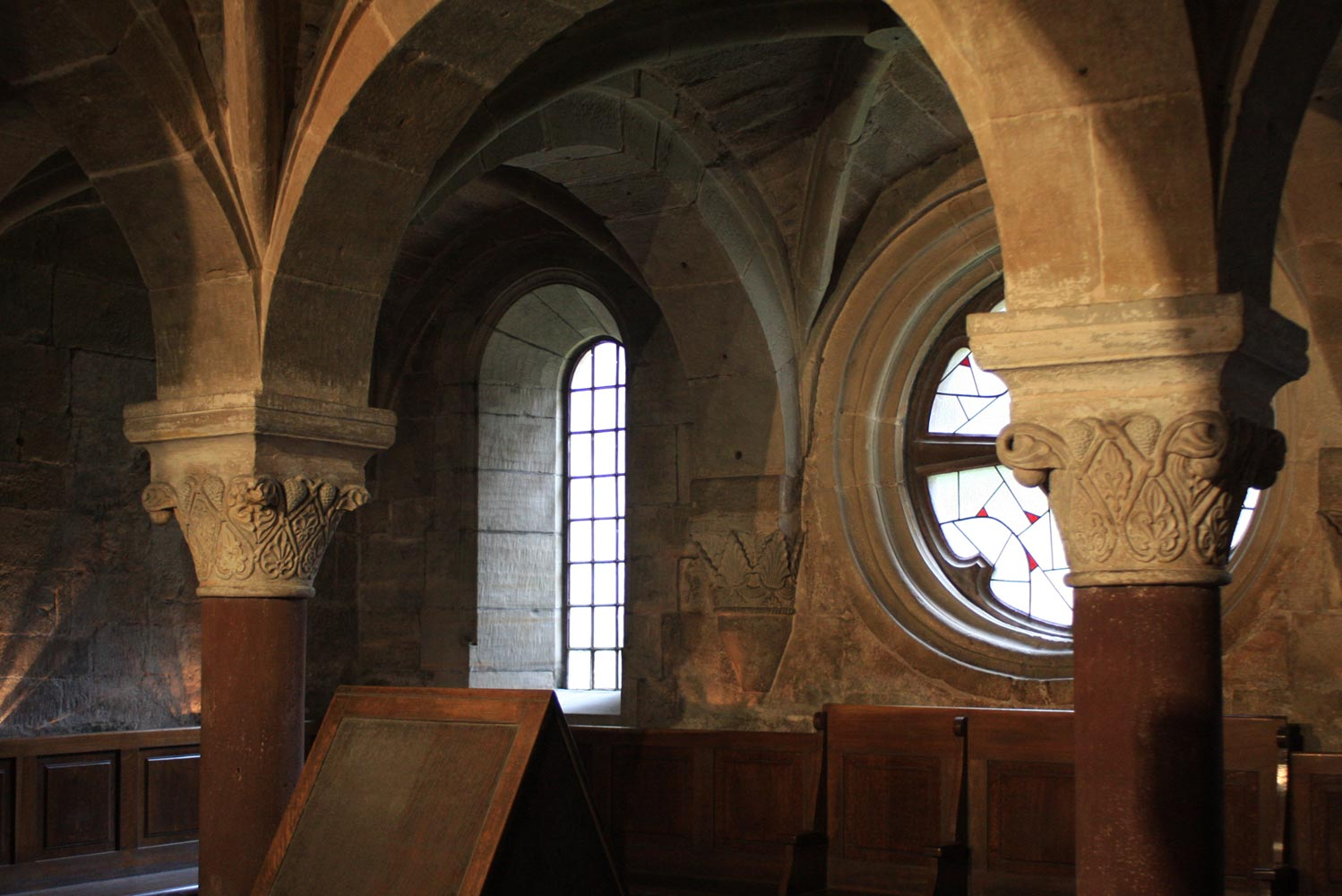 Chapter house of the Cistercian Abbey in Wachock, Poland